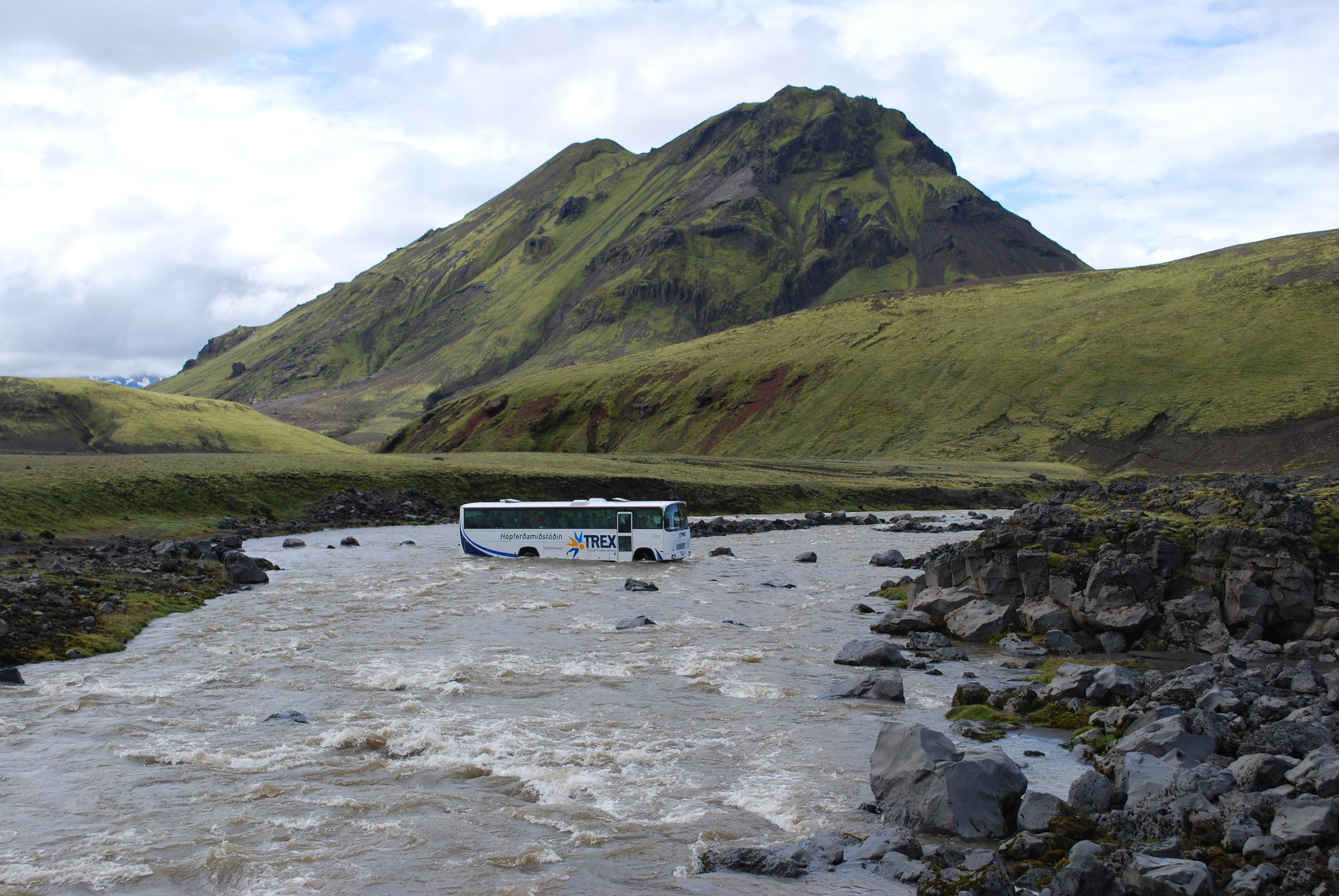 Wading by bus, Iceland